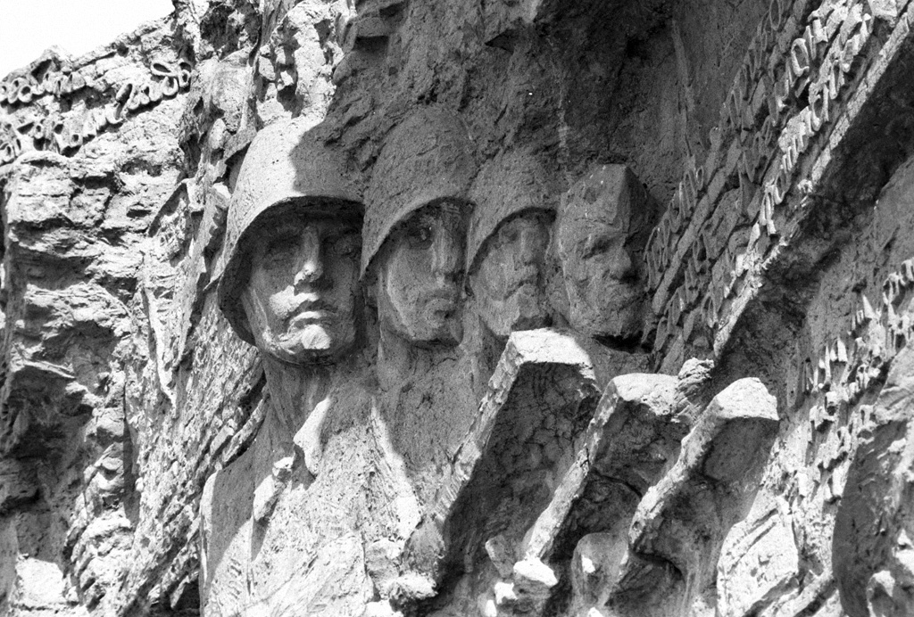 “"To Heroes of the Battle of Stalingrad" monument-ensemble”. Bas-relief fragment of "To Heroes of the Battle of Stalingrad" monument-ensemble at the Mamayev Kurgan in Volgograd.